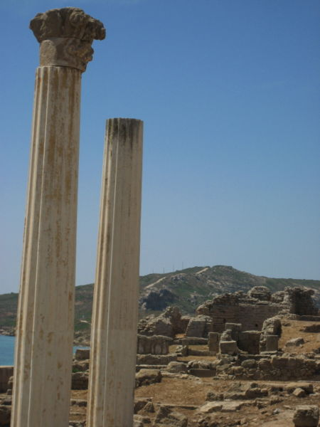 Roman Corinthian columns at Tharros, Sardinia, Italy.)